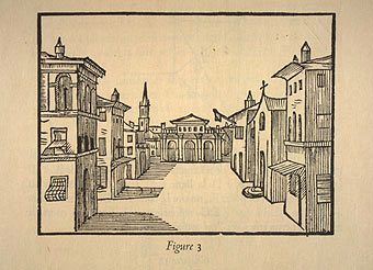 Perspective drawing for a theater stage set, by Nicola Sabbatini, 1638.